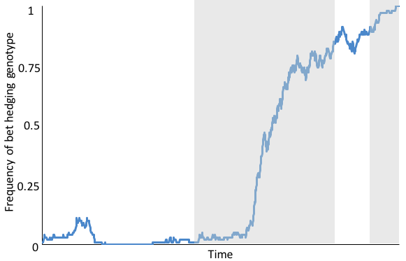 The evolution of an allele that is deleterious is the normal environment (white) but advantageous in an alternate environment (grey). The bet hedging allele arises twice due to mutation, the first occurrence is lost before the environment changes, but the second mutant persists long enough due to drift for the environment to change, at which point it reaches fixation due to selection.